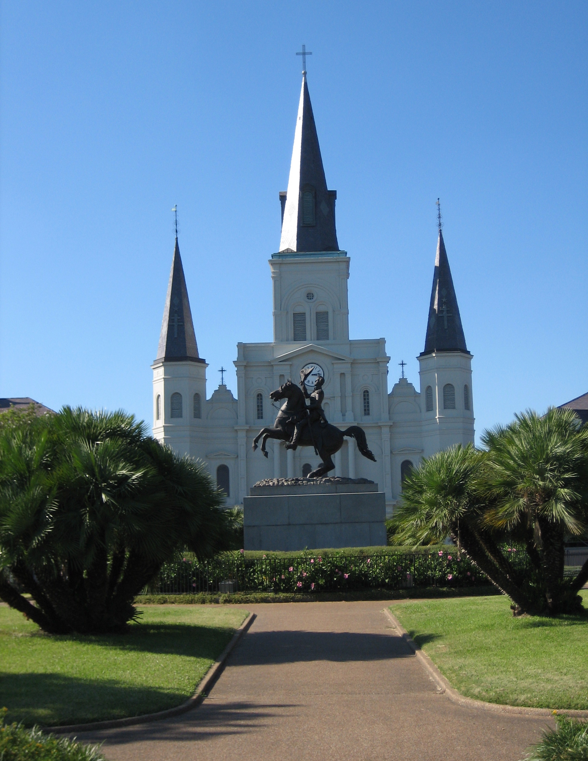 St Louis Cathedral and equestrian statue of Andrew Jackson, Jackson Square, French Quarter. New Orleans. Photo by Infrogmation, 19 October 2005.